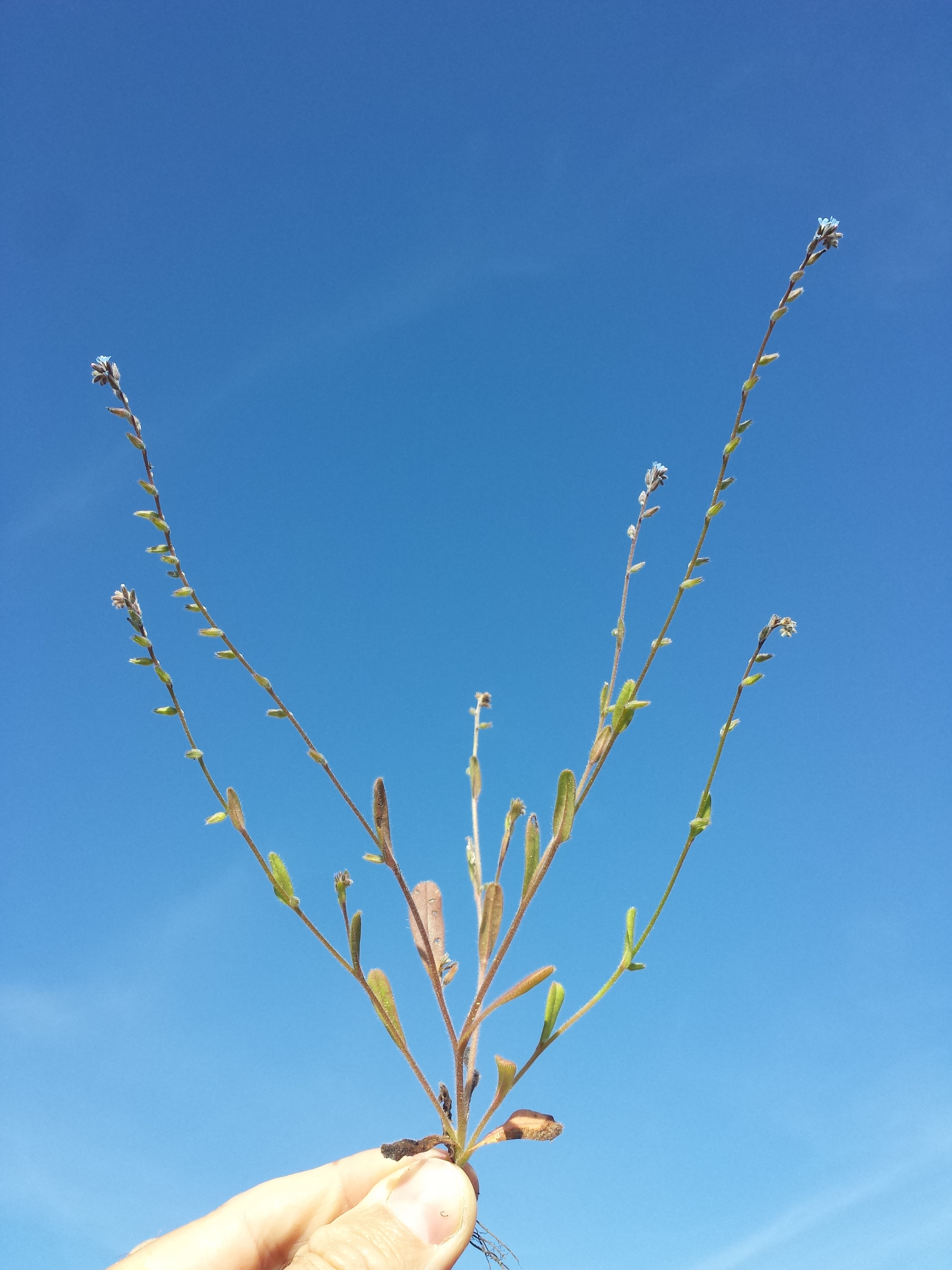 Habitus Taxonym: Myosotis stricta ss Fischer et al. EfÖLS 2008 ISBN 978-3-85474-187-9 Location: Floridsdorf rail station, Vienna-Floridsdorf - ca. 160 m a.s.l. Habitat: sandy area